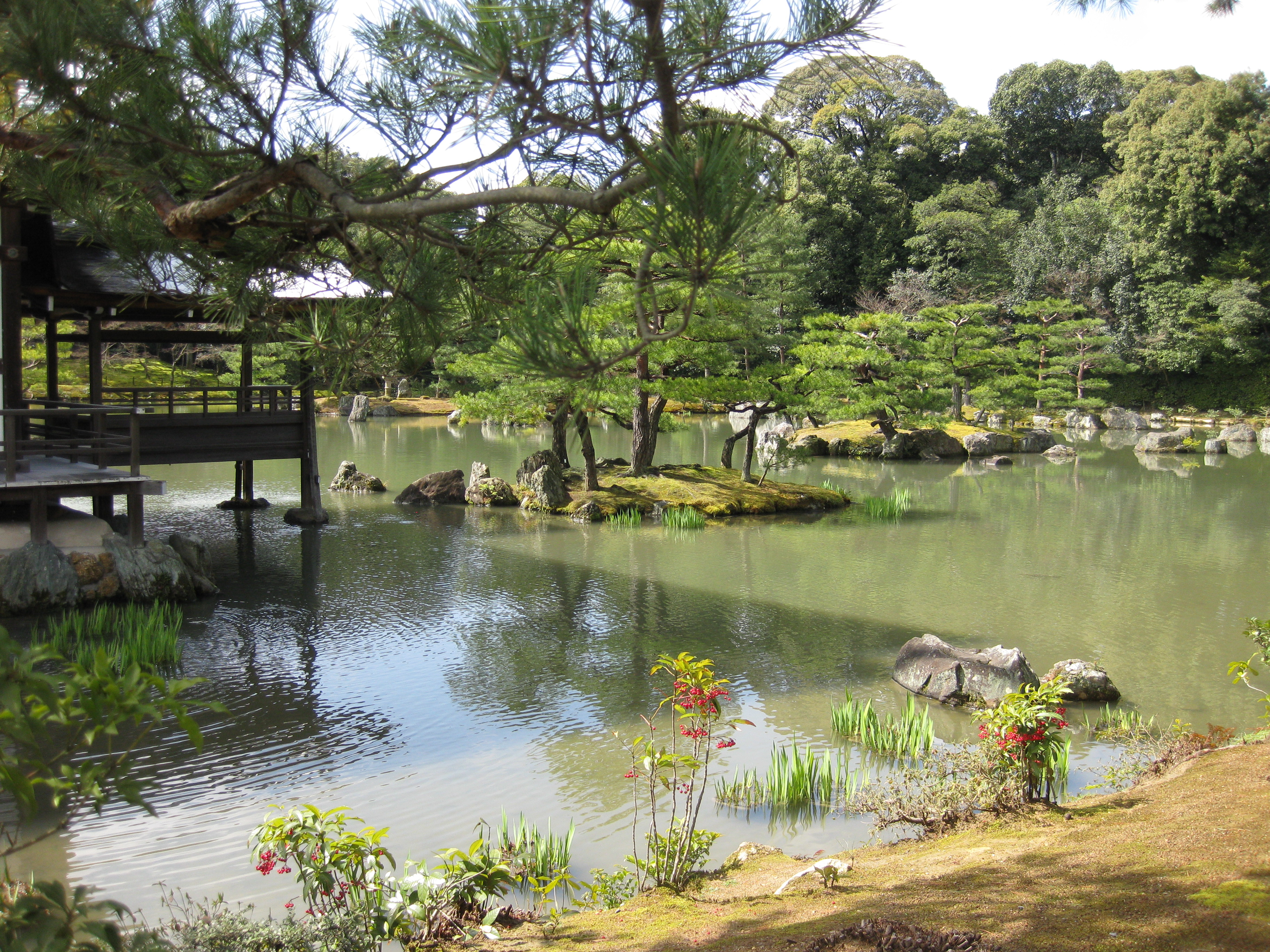 Kinkaku-ji or temple of the Golden Pavillion, in Kyoto, Japan.